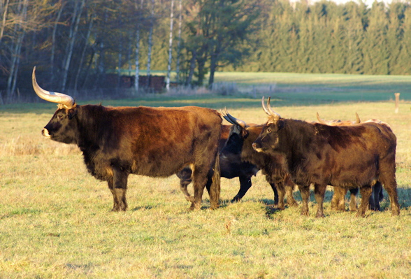 Aurox-female, nearly 1,60 m born 14.08.1998 in Jesenwang, Germany, left in comparison with normal Auroxen (heck cattle) with about 1,40 m on shoulder.